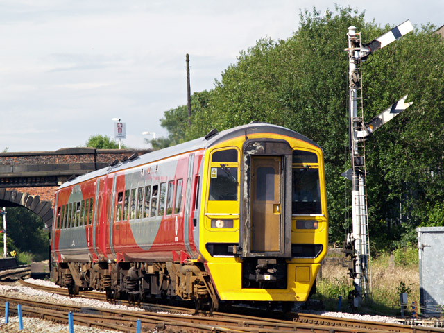 West Yorkshire PTE (leased from Midland Montague) BREL Limited class 158/9 two car diesel-hydraulic multiple unit number 158906 (57906, 52906) of Neville Hill T&RSMD passes Castleton East Junction signal box 59 signal (Up Main Home 2, with R57 Up Main I.B. Home 1 Distant below) forming the 15:03 Leeds to Manchester Victoria (2M24). Sunday 8th July 2007